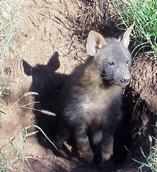 A Brown Hyena (Hyaena brunnea Syn. Parahyaena brunnea) puppy, courtesy of